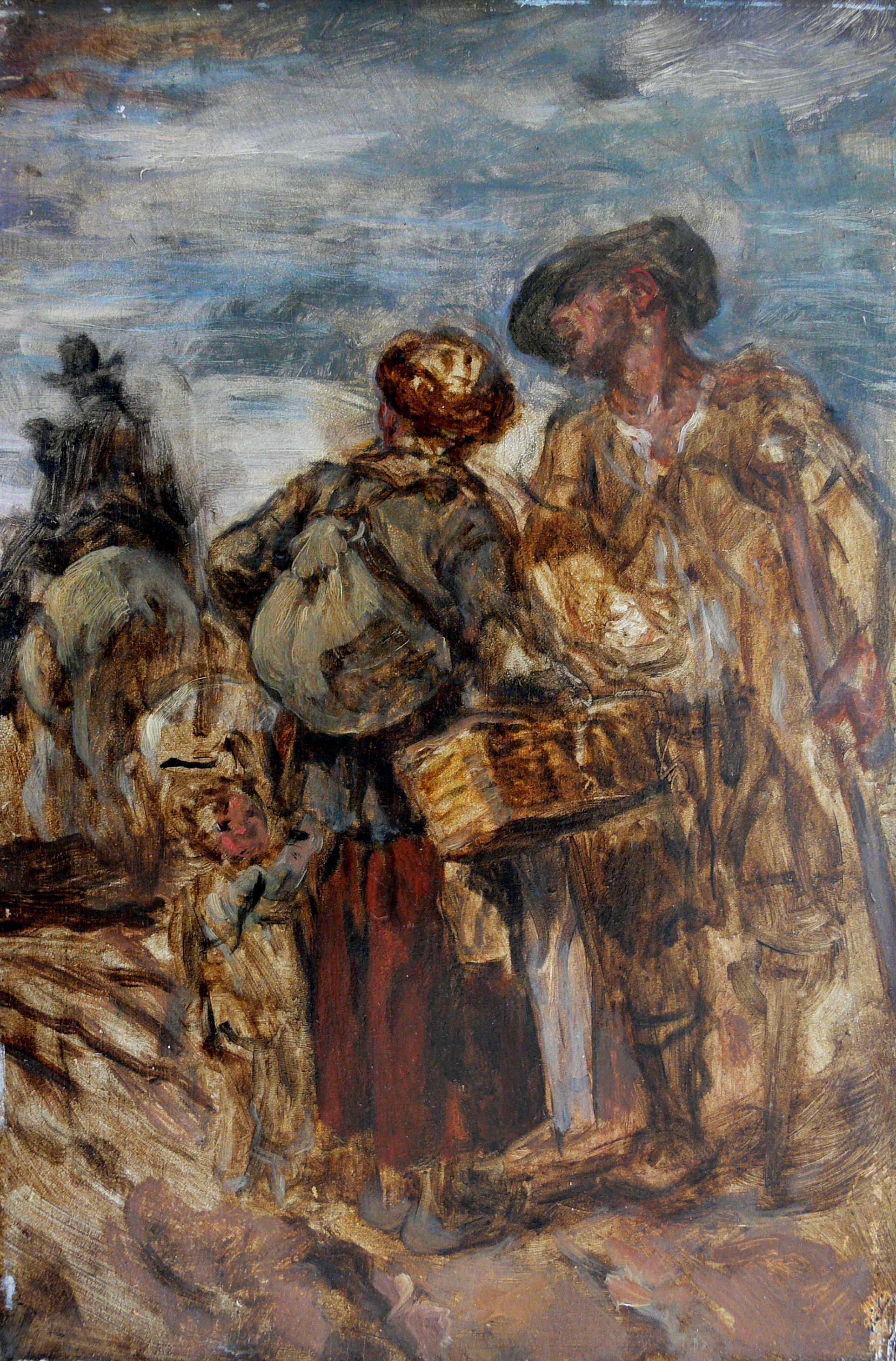 Beggars, Oil on wood. Private collection. The artist's son, Hans, confirms in a handwritten sentence on the back that it is a work of his father's.